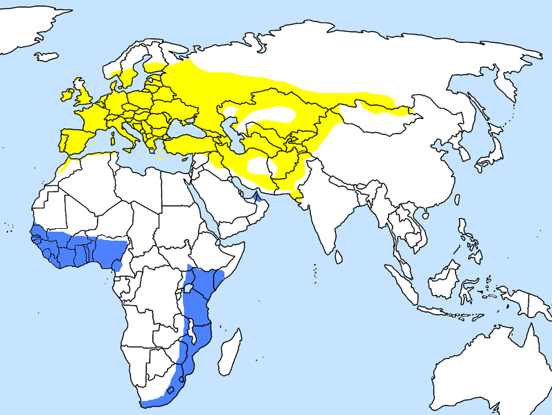 Range map of the European Nightjar (Caprimulgus europaeus)